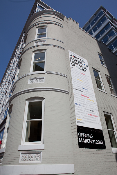 Side view, with banner, of the German-American Heritage Museum.